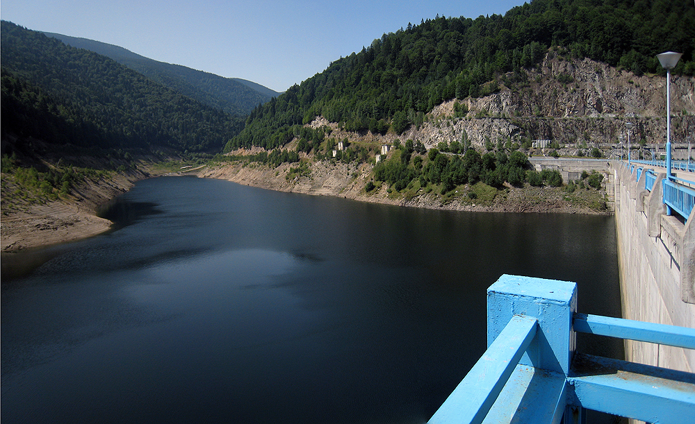 Chaira Hydro Power Storage Electric Plant Reservoir, Bulgaria